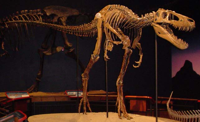 Jane at the Burpee Museum in Rockford, Illinois.